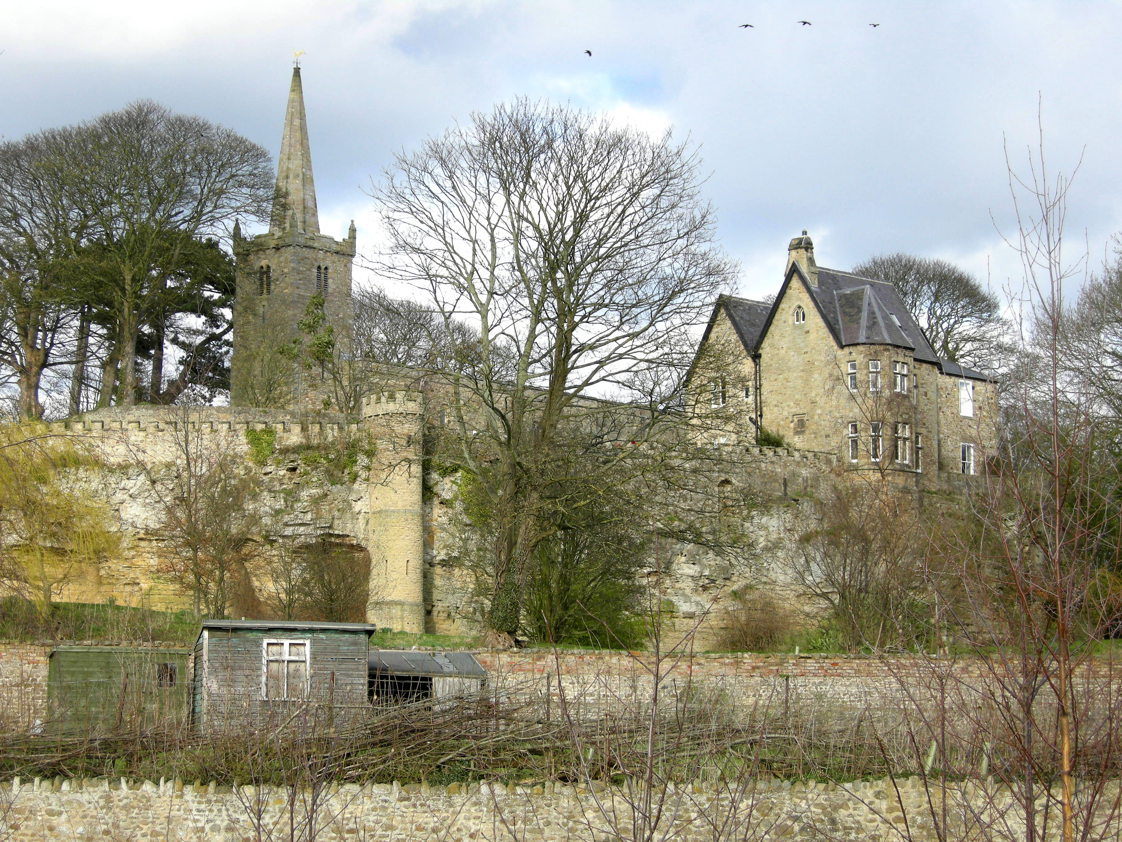 High Coniscliffe, County Durham, England. Showing St Edwin's Church and vicarage on cliff.